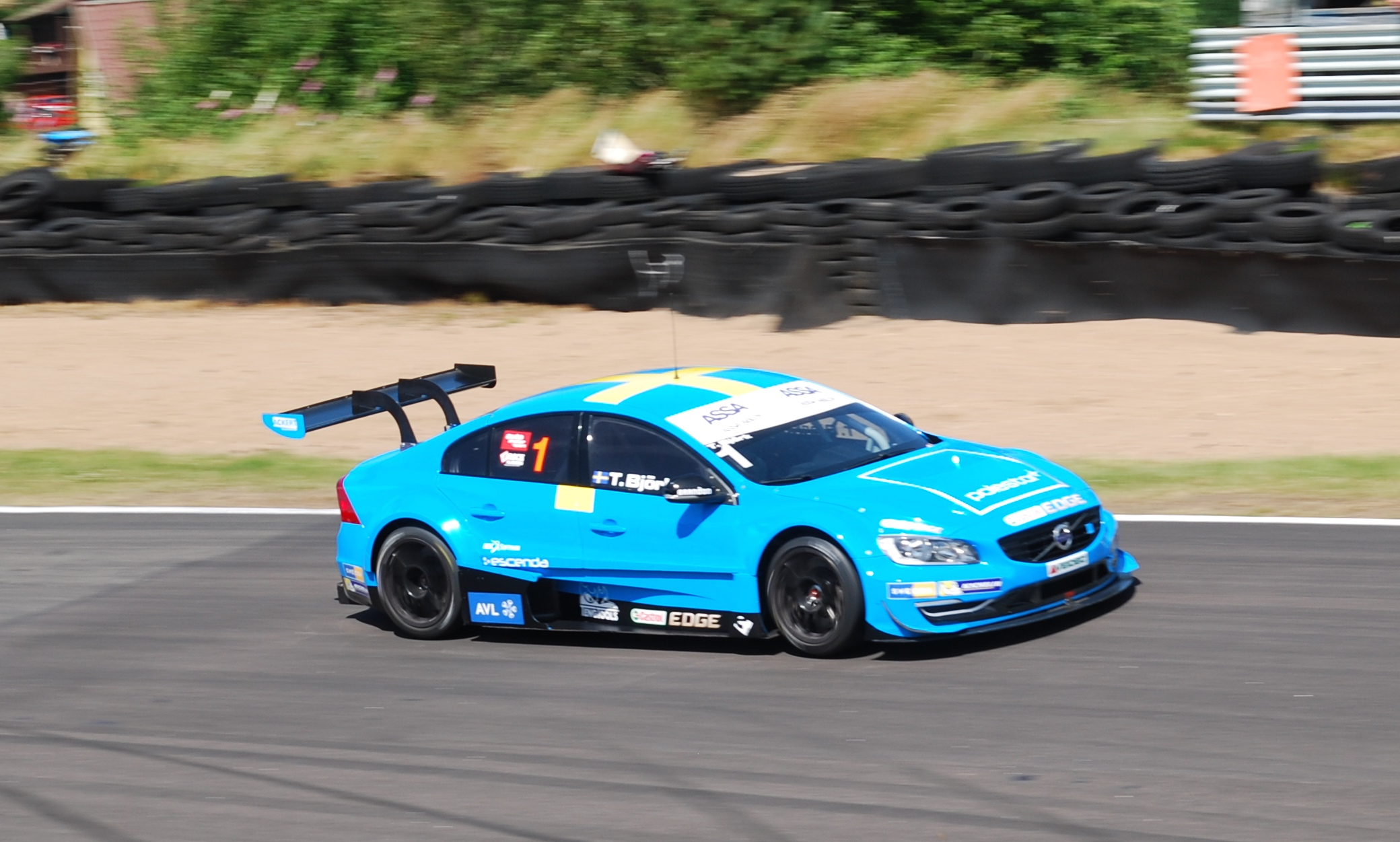 Thed Björk driving for Volvo Polestar Racing at Falkenbergs Motorbana, during the fifth round of the 2015 Scandinavian Touring Car Championship (STCC) season.